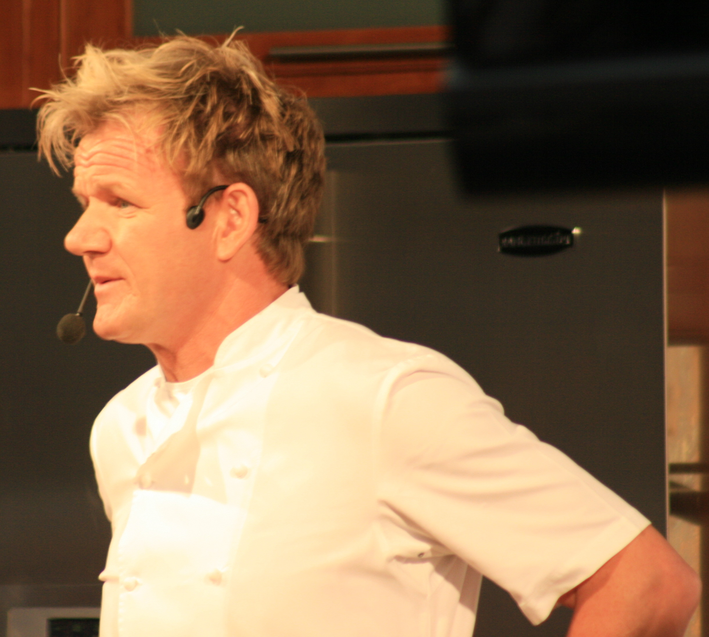 Gordon Ramsey. Image taken at Gardeners World Live 2008